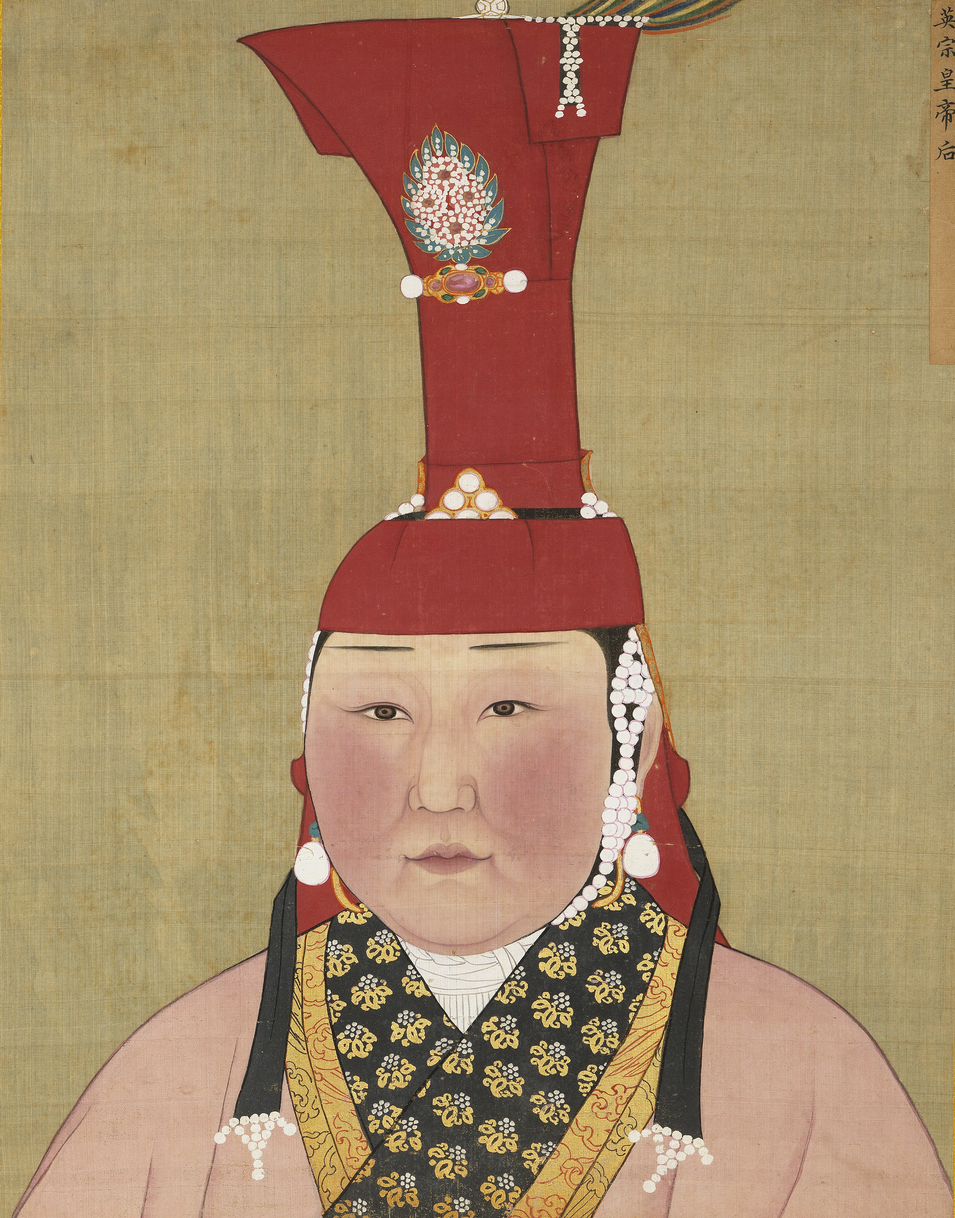 an unnamed wife of Shidebala (a.k.a. Yingzong). Paint and ink on silk. Portrait cropped out of a page from an album depicting several consorts of Yuan emperors (Yuandai dihou banshenxiang), now located in the National Palace Museum in Taipei (inv. nr. zhonghua 000325). Original size is 48 cm wide and 61.5 cm high. For the full page, see Image:YuanEmpressAlbumTwoWivesOfShidebala.jpg. Note: Some rows or columns of pixels near the margins of the pic may have been manipulated by me (Yaan) for optics. For an unaltered (except cropping) version, see the image at Image:YuanEmpressAlbumTwoWivesOfShidebala.jpg.